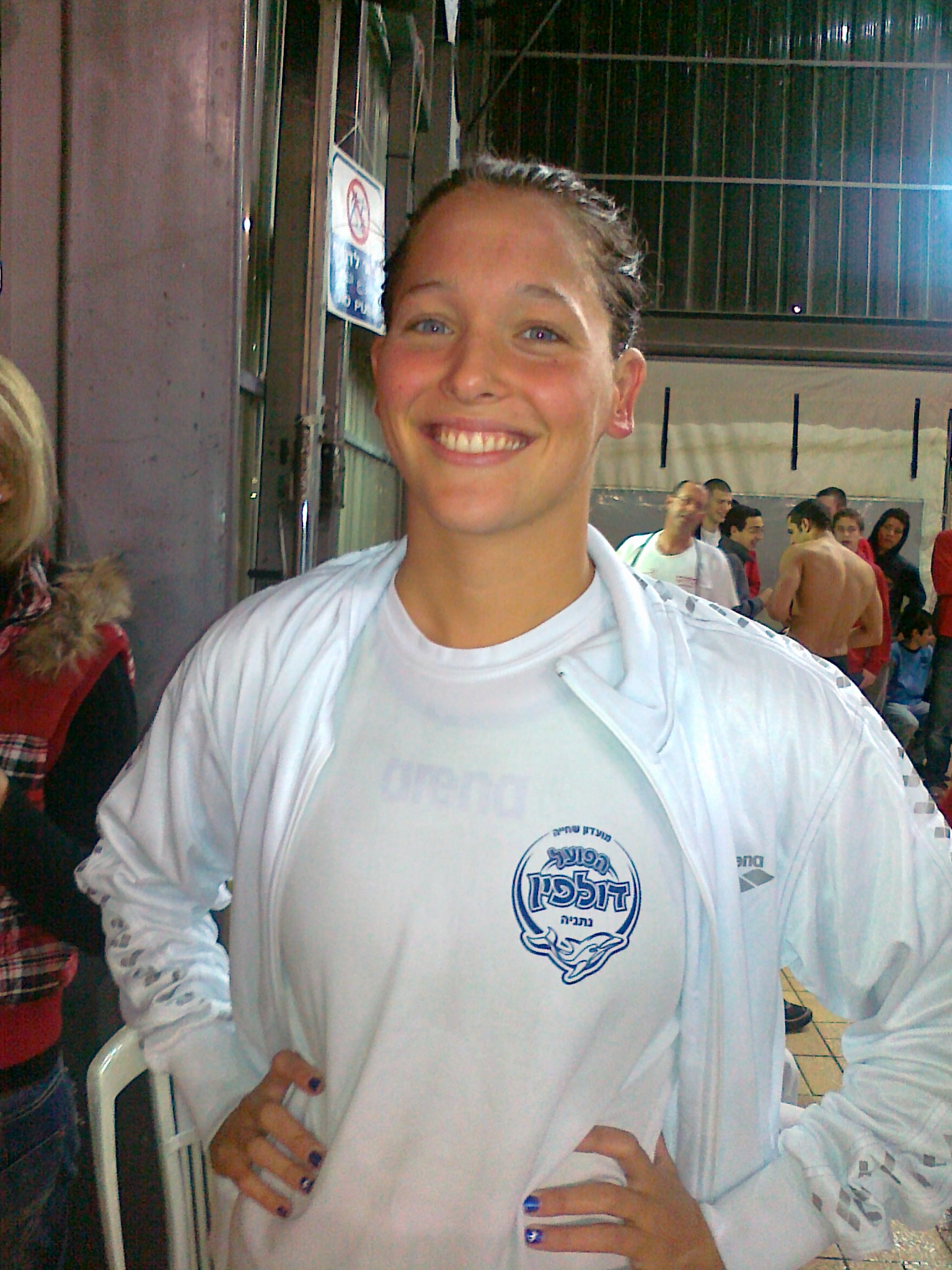 Keren Ziebner, After winning a gold medal in 50 m freestyle at Israel Swimming Championships (25-meter pool), Ashdot Yaacov, February 2013